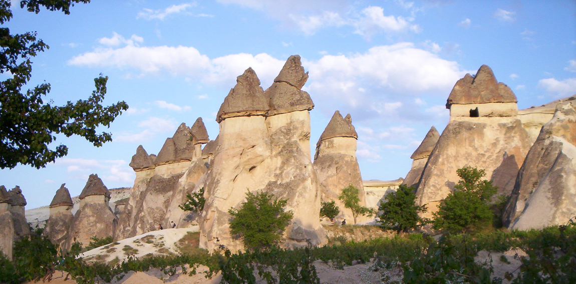 Fairy chimney in the Cappadocia